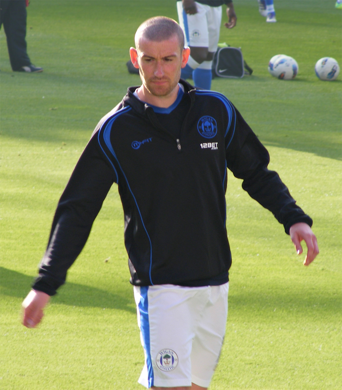 David Jones of Wigan athletic warming up.